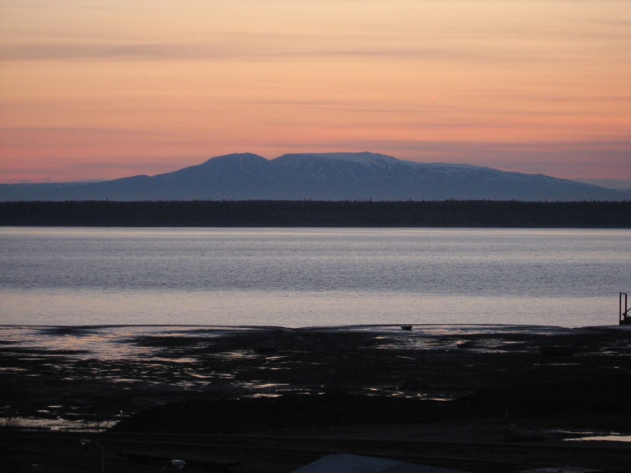 Sleeping Lady at dusk